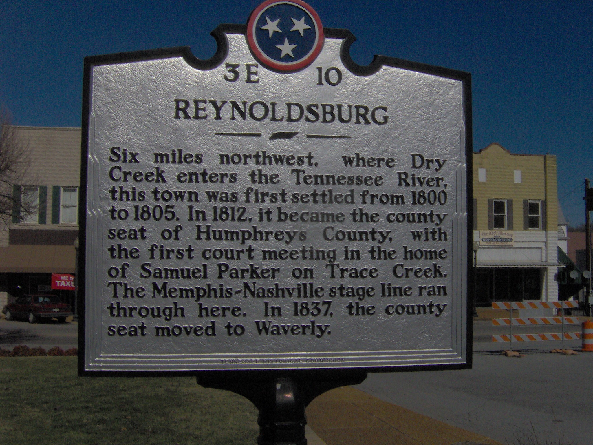 Tennessee Historical Commission marker recalling the now-defunct town of Reynoldsburg, Tennessee, in the southeastern United States. Reynoldsburg was a major stage coach hub on the road between Nashville and Memphis in the early 1800s. This marker is located in nearby Waverly, which succeeded Reynoldsburg as the county seat in 1835.